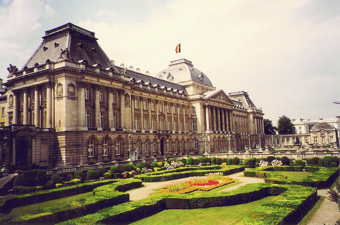 Royal Palace of Brussels